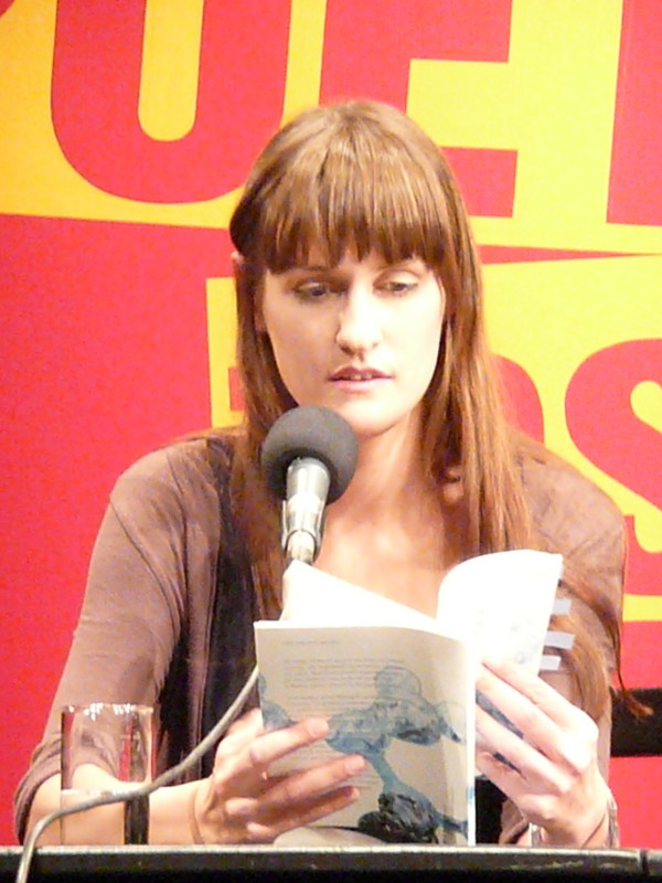 German poet Katharina Schultens reads one of her poems during an interview at the Erlanger Poetenfest 2011